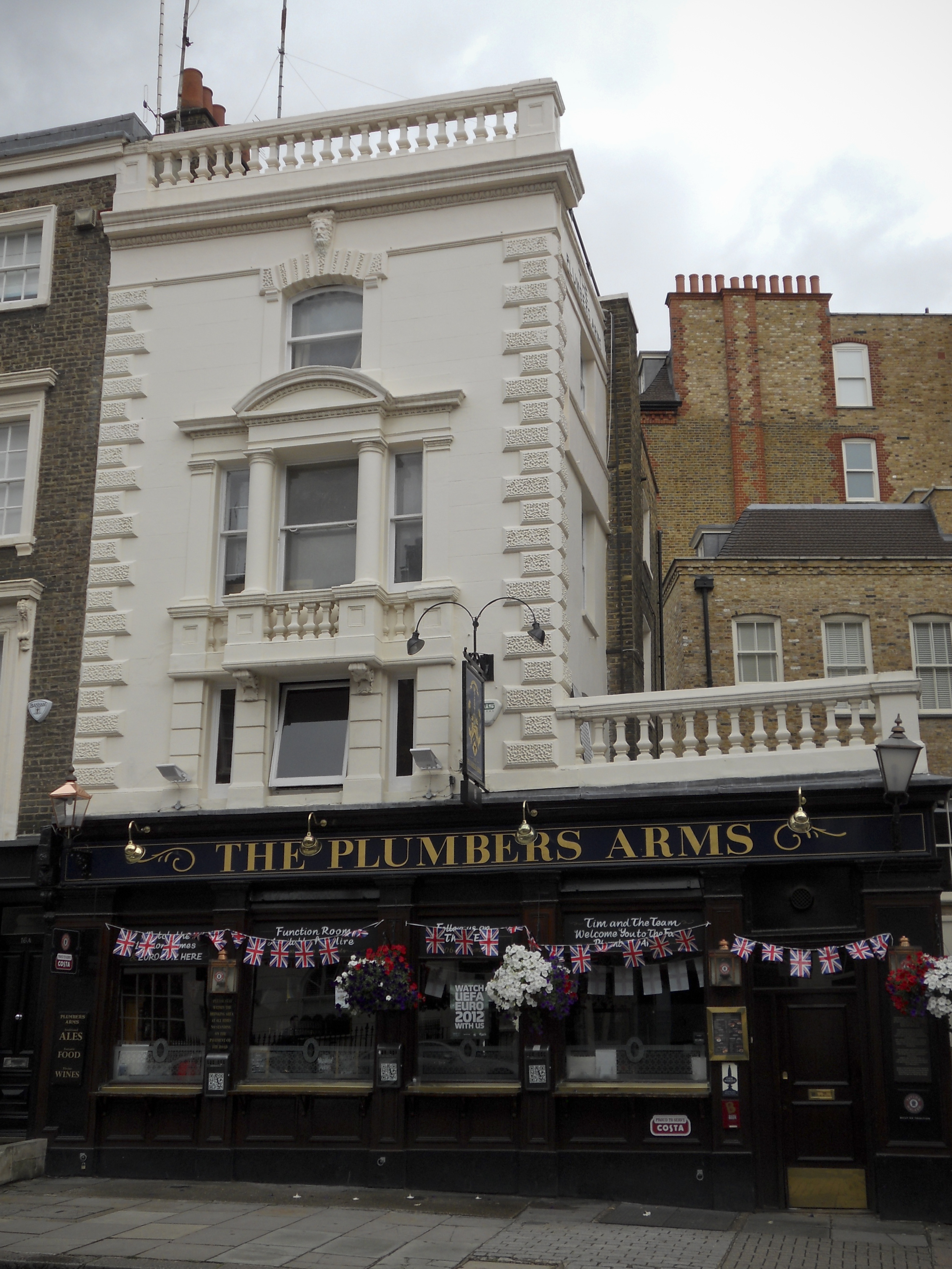 Exterior view of the public house The Plumbers Arms, 14 Lower Belgrave Street, Victoria, London SW1W 0LN, UK. Photographed on 24 June 2012.